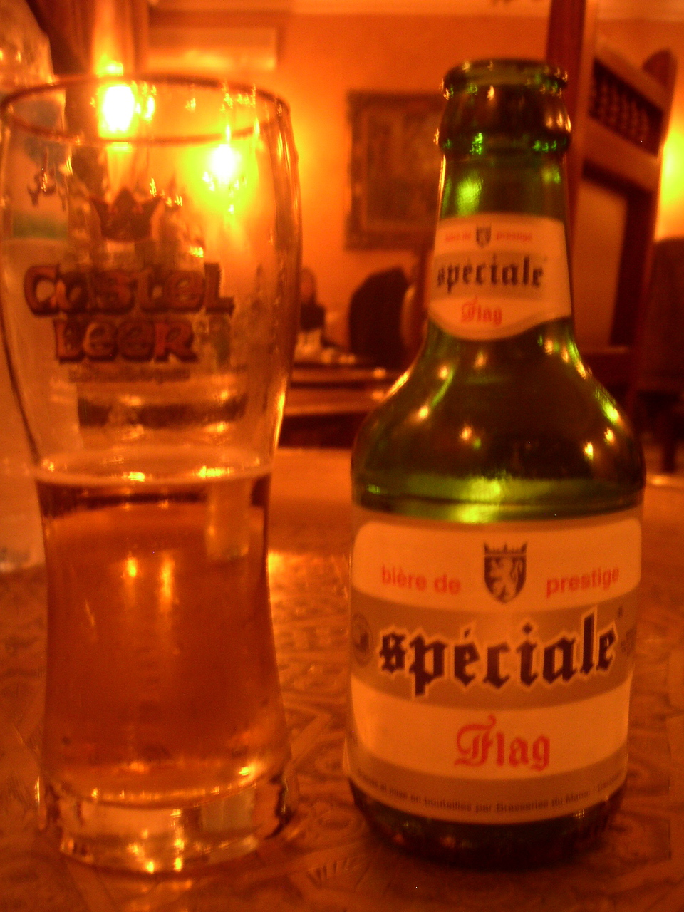 Speciale Flag beer of Morocco at a hotel bar in Casablanca.